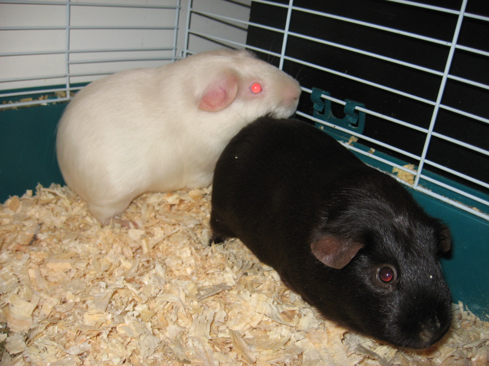 Two American Satins